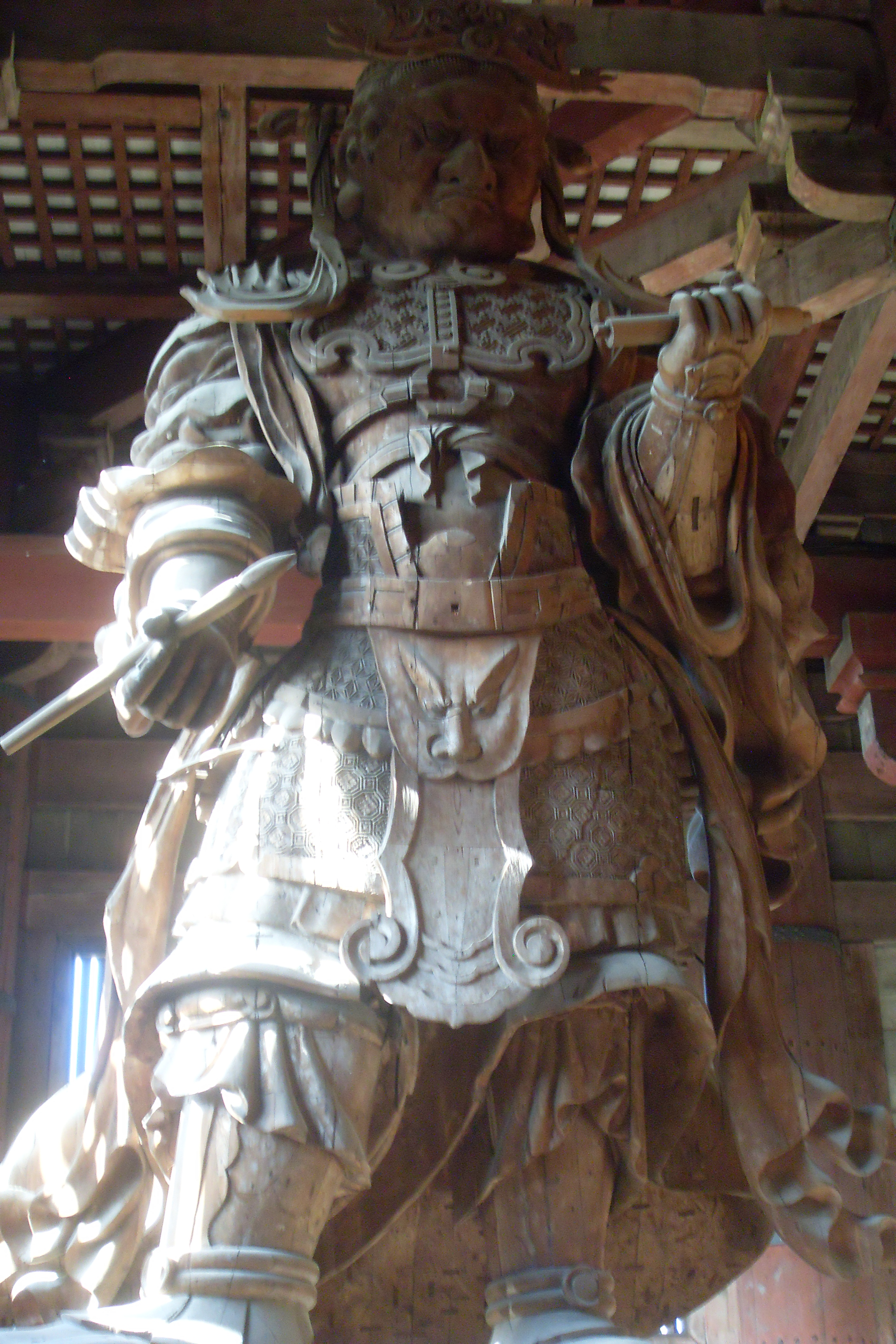 Koumokuten, one of the Shiten'oo (Four Heavenly Kings), the guardian of the West, at Todaiji temple in Nara, Japan